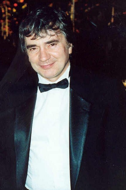 Dudley Moore, Photo taken at the 43rd Emmy Awards 8/25/91